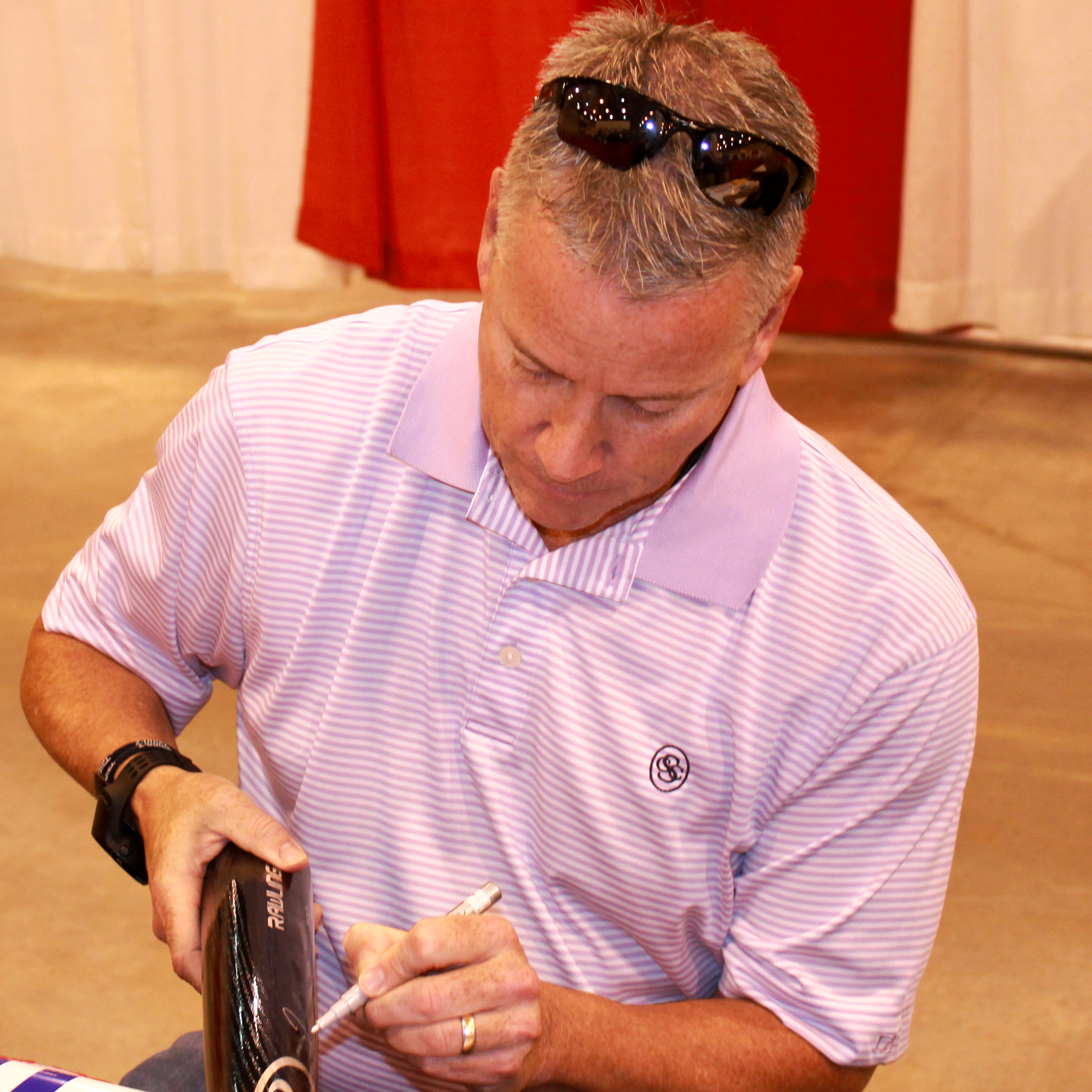 Former Major League Baseball pitcher Tom Glavine signs autographs at a 2014 sports collectors show in Houston.